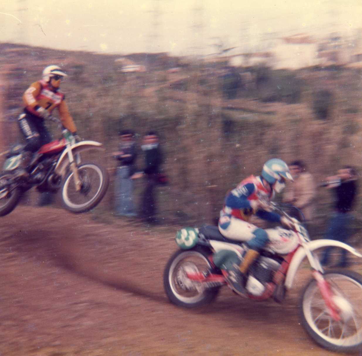 Patrick Boniface (KTM) followed by Raymond Boven (Montesa) at Circuit del Vallès, Sabadell-Terrassa (Catalonia), during the 1978 spanish MX GP 250cc.